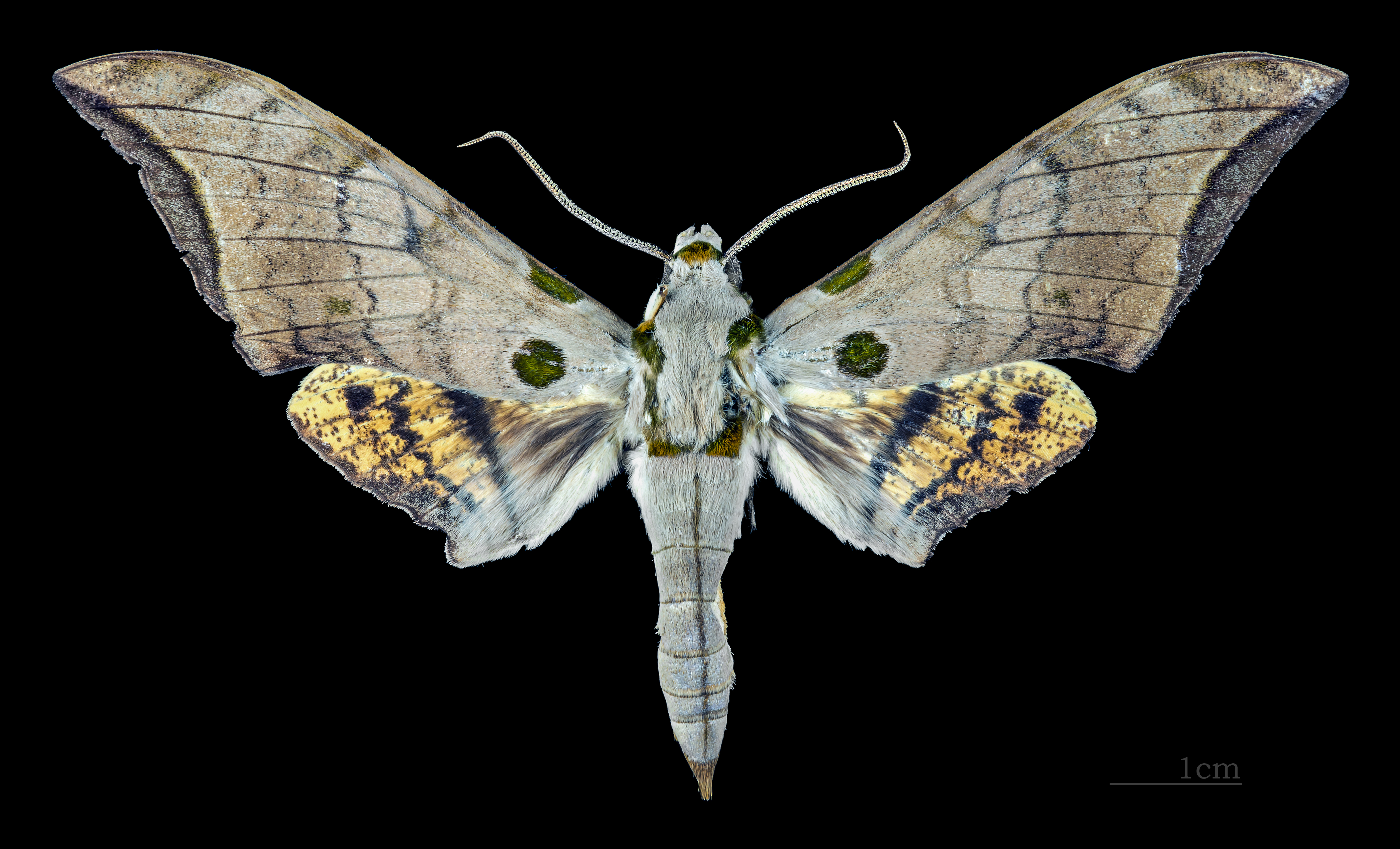 Ambulyx wilemani - Dorsal side Collection of the Mathematician Laurent Schwartz